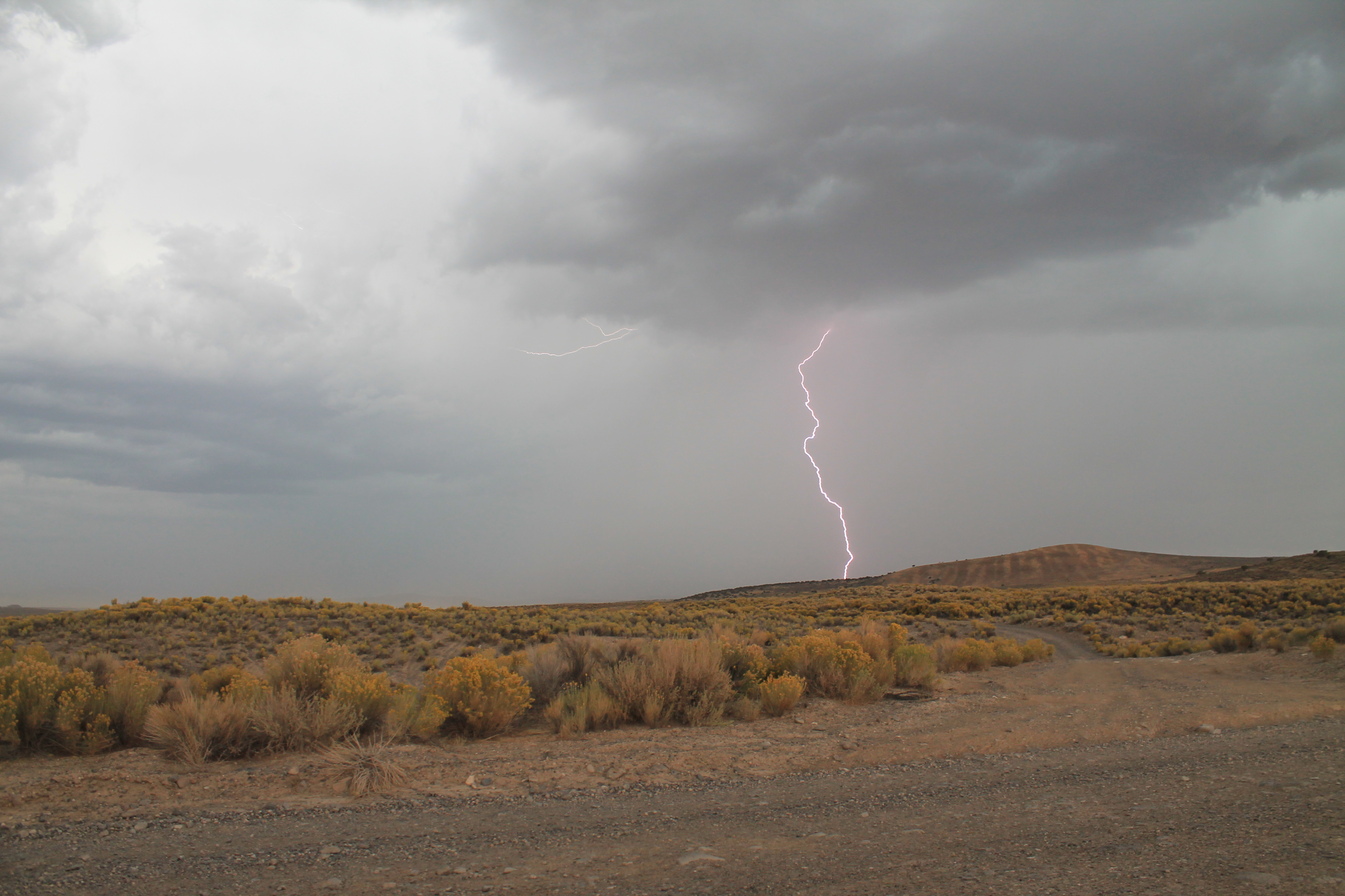 Lightning in Spring Creek, Nevada